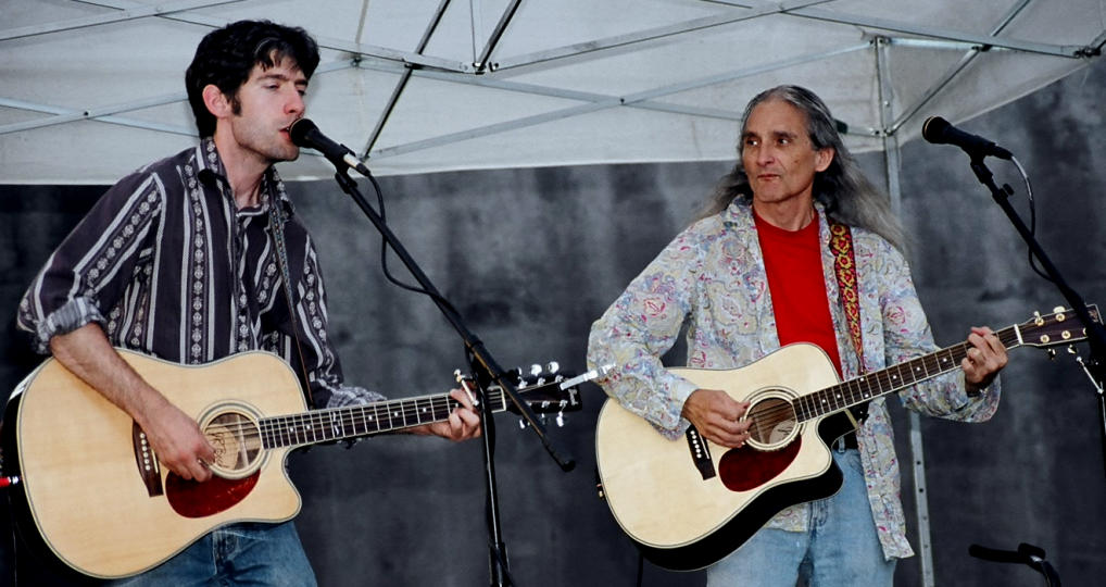 Photo of Jimmie Dale Gilmore and Colin Gilmore at Deep Eddy Pool in Austin Texas, June 2004. Photo by Steve Hopson. More information about photographer and other images at .